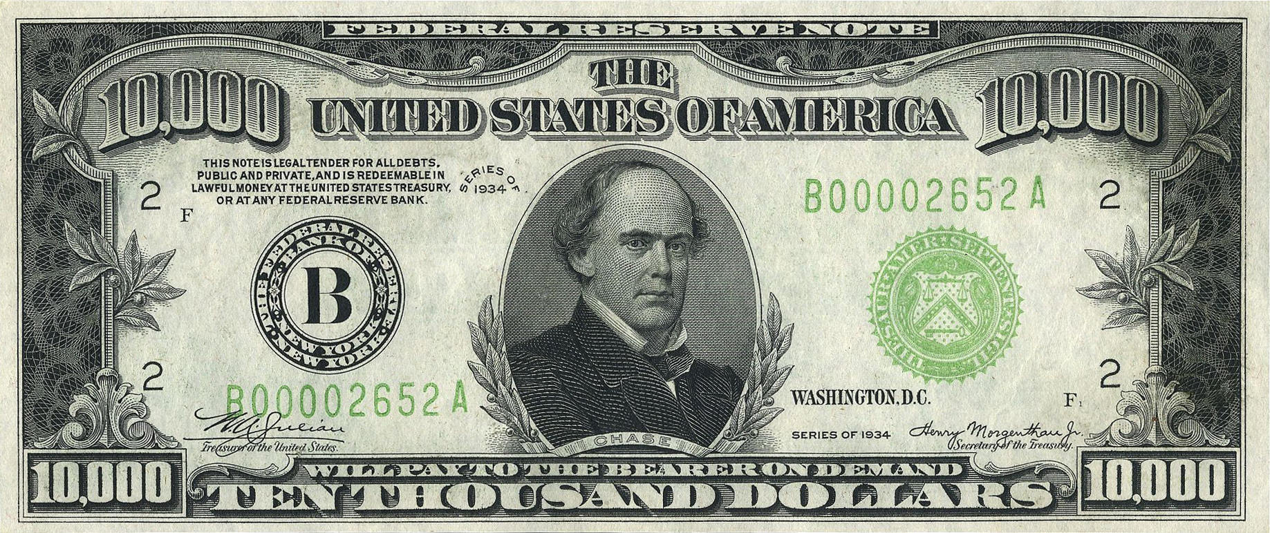 10,000 dollar bill (not in use today) Series: 1928, 1934, 1934A & 1934B Portrait: Salmon P. Chase, Secretary of the Treasury (1861-1864) Back Vignette: The United States of America - Ten Thousand Dollars - 10,000